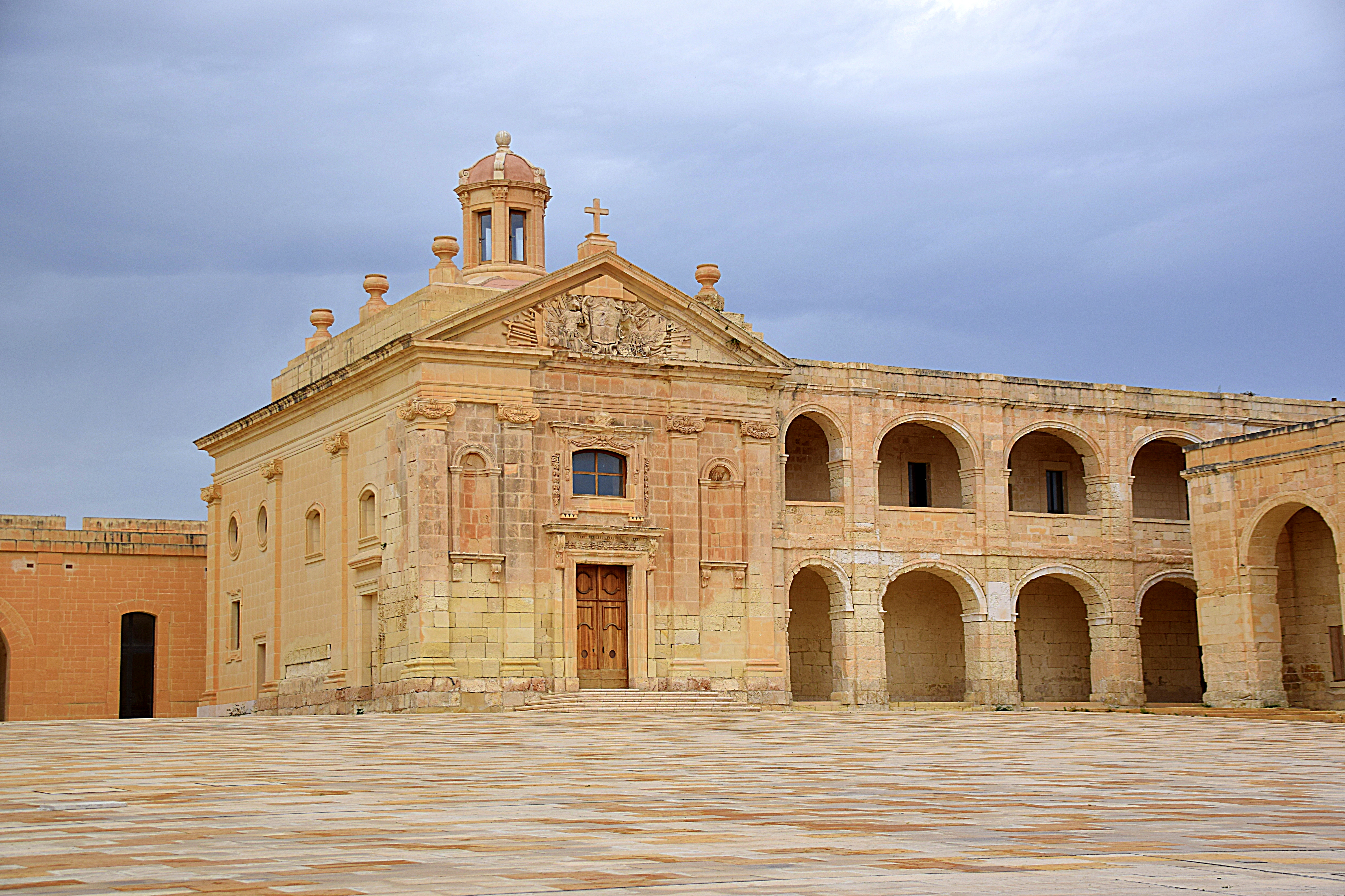 Fort Manoel This media is about Maltese cultural property with inventory number 01315.